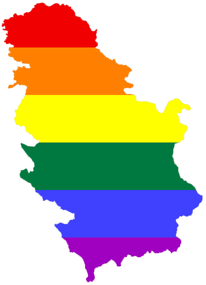 GLBT (Gays Lesbian Trans) Flag into map of Serbia, for symbolize the homosexual movement in Serbia.